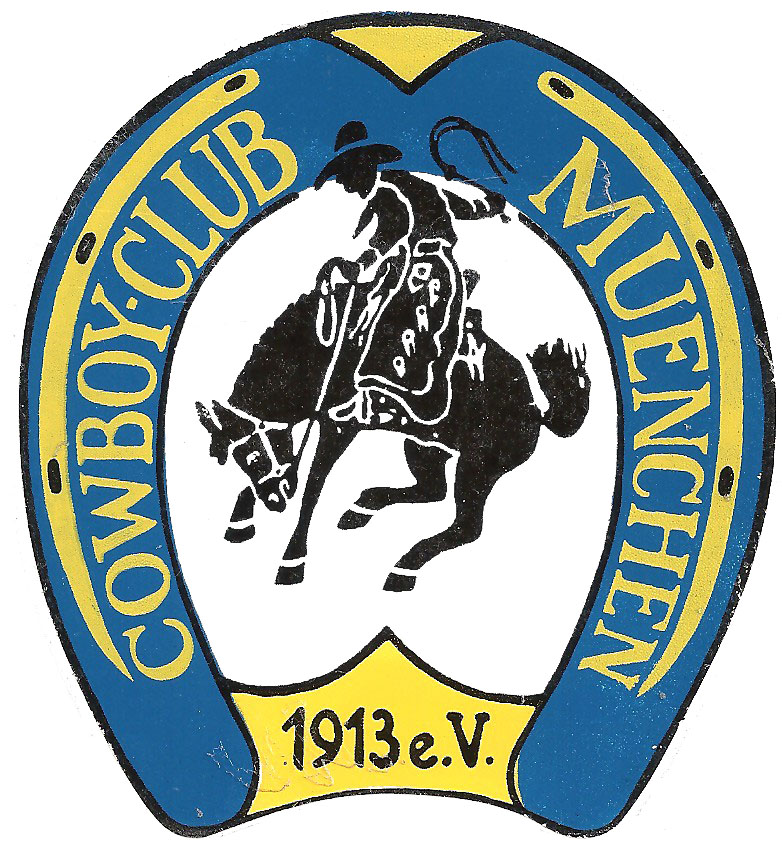 Cowboy Club München 1913 e.V.